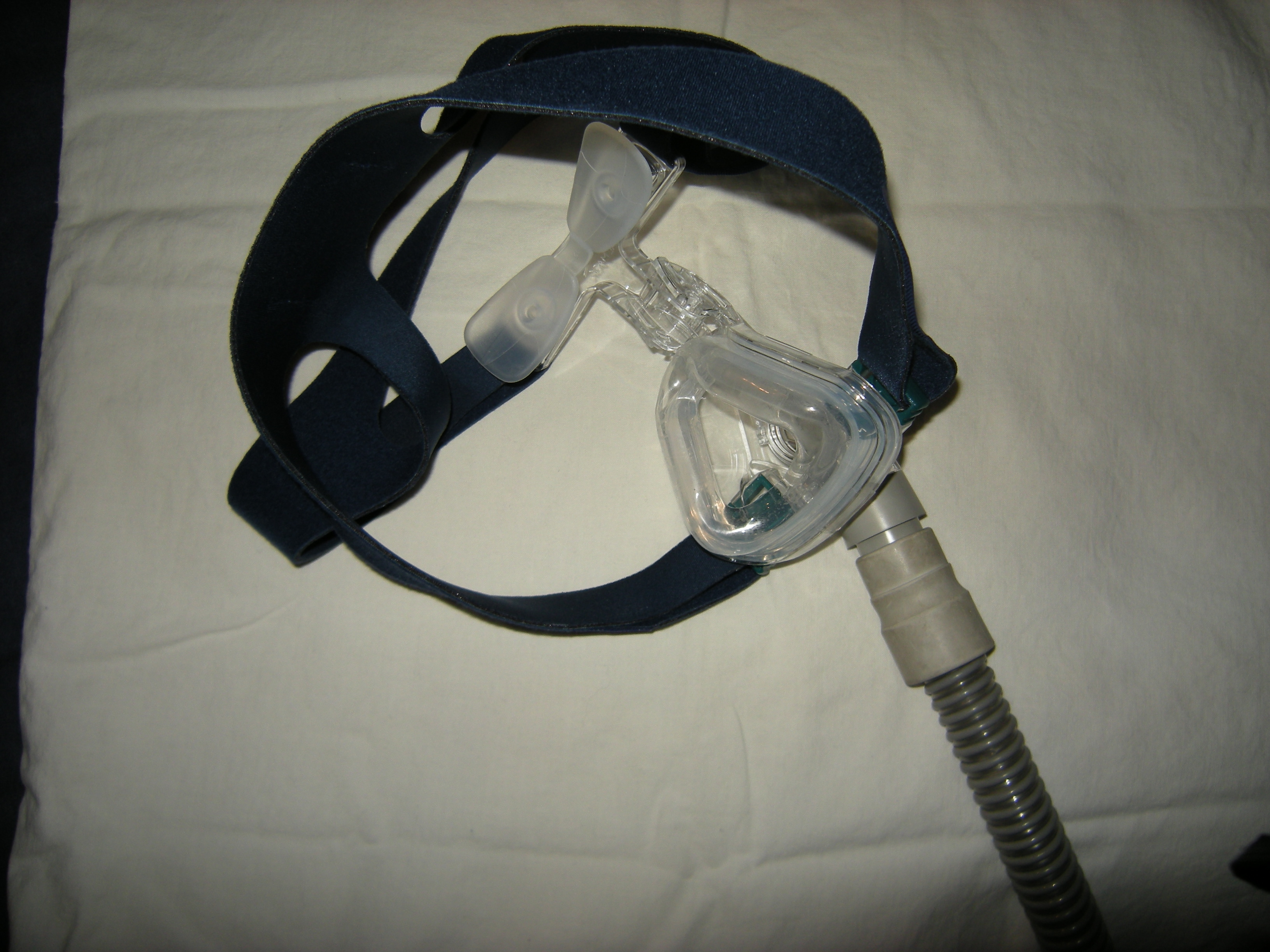 A typical CPAP mask. The opening goes over the nose, the tabs press against the forehead.